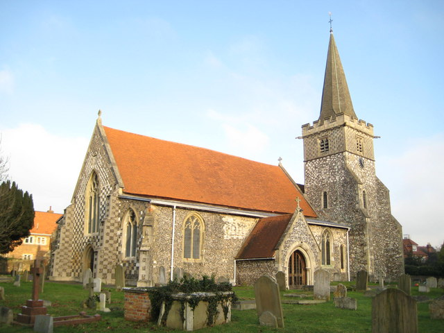 Church of England parish church of Saint Peter, Burnham, Buckinghamshire: view from the southwest. The tower was built in the 13th century, but its top was rebuilt in 1864